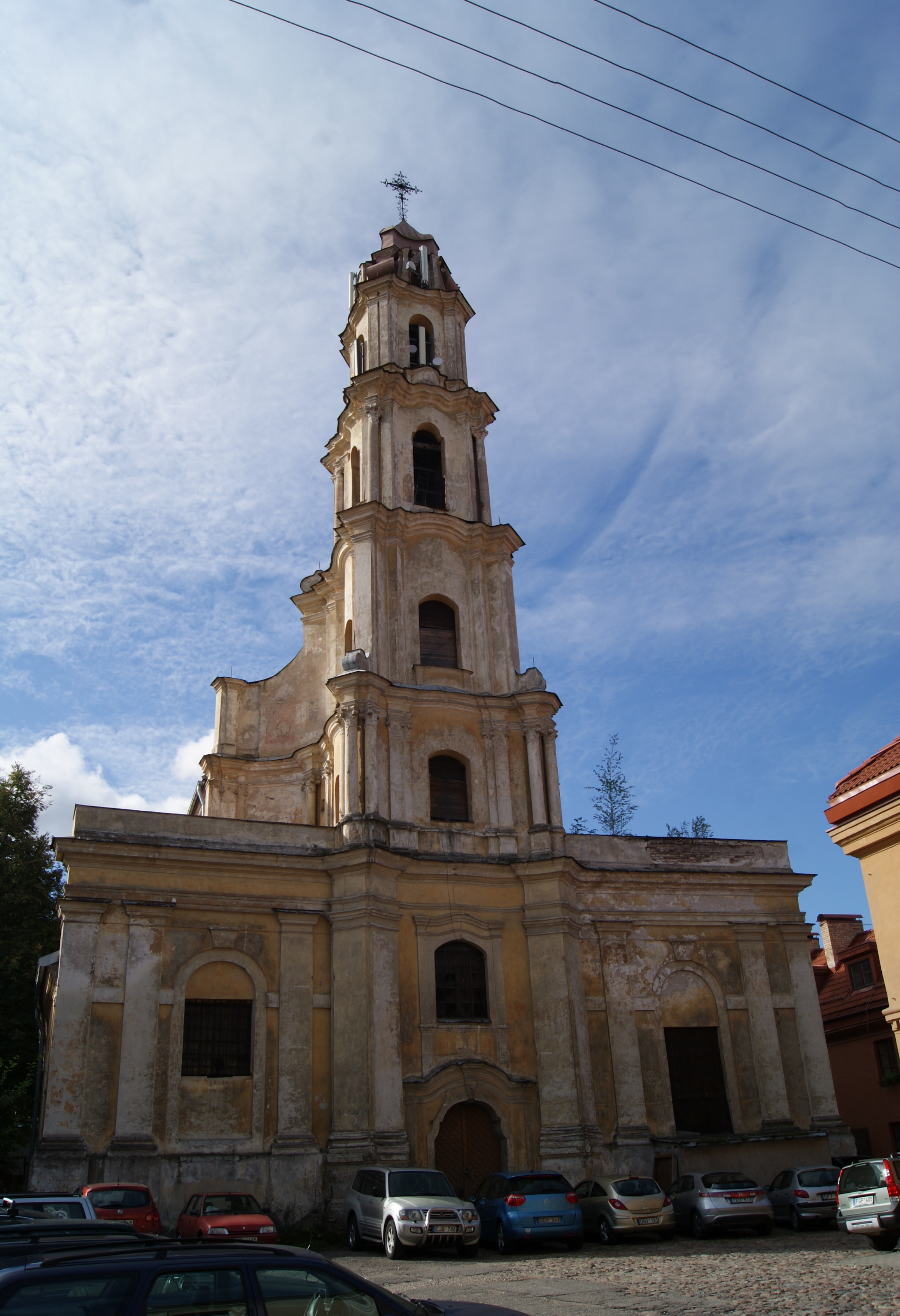 Church of the Blessed Virgin Mary of Consolation, Vilnius, Lithuania